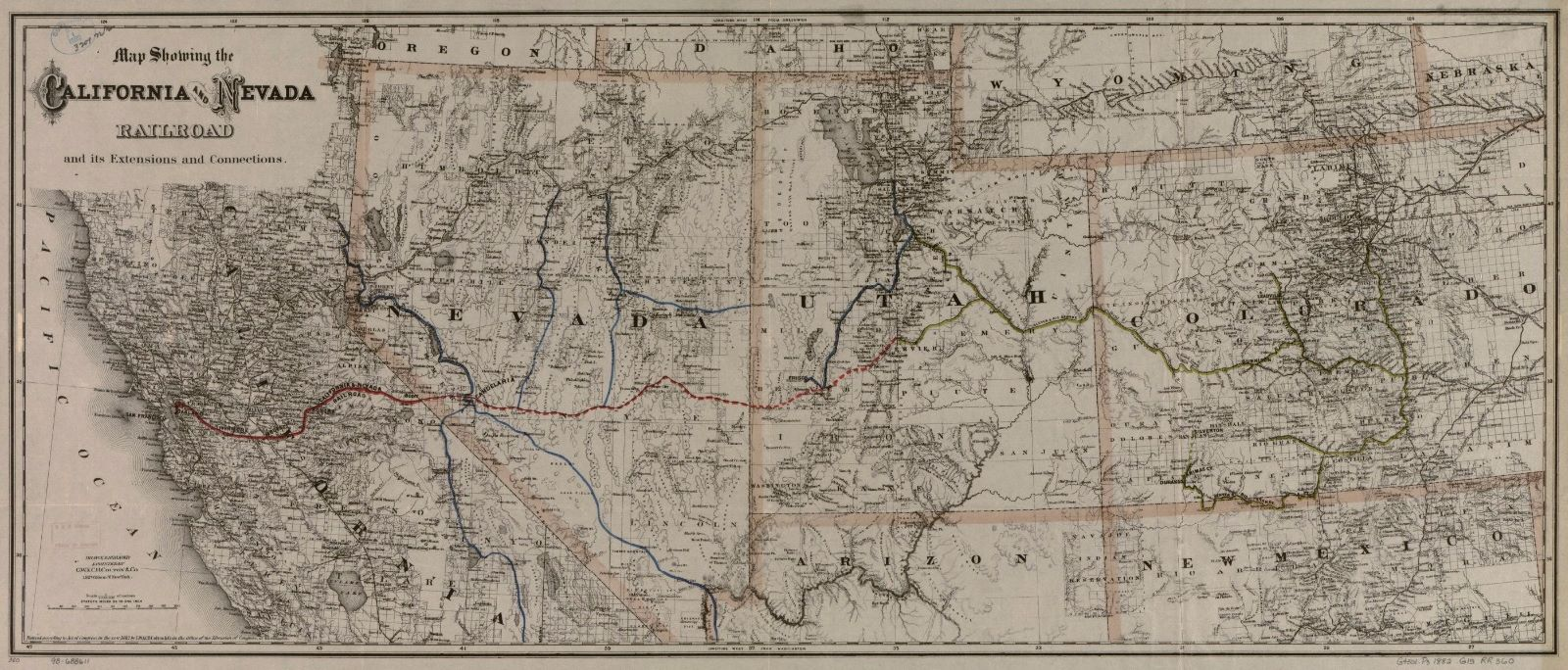 1882 Map showing the California and Nevada Railroad and its extensions and connections